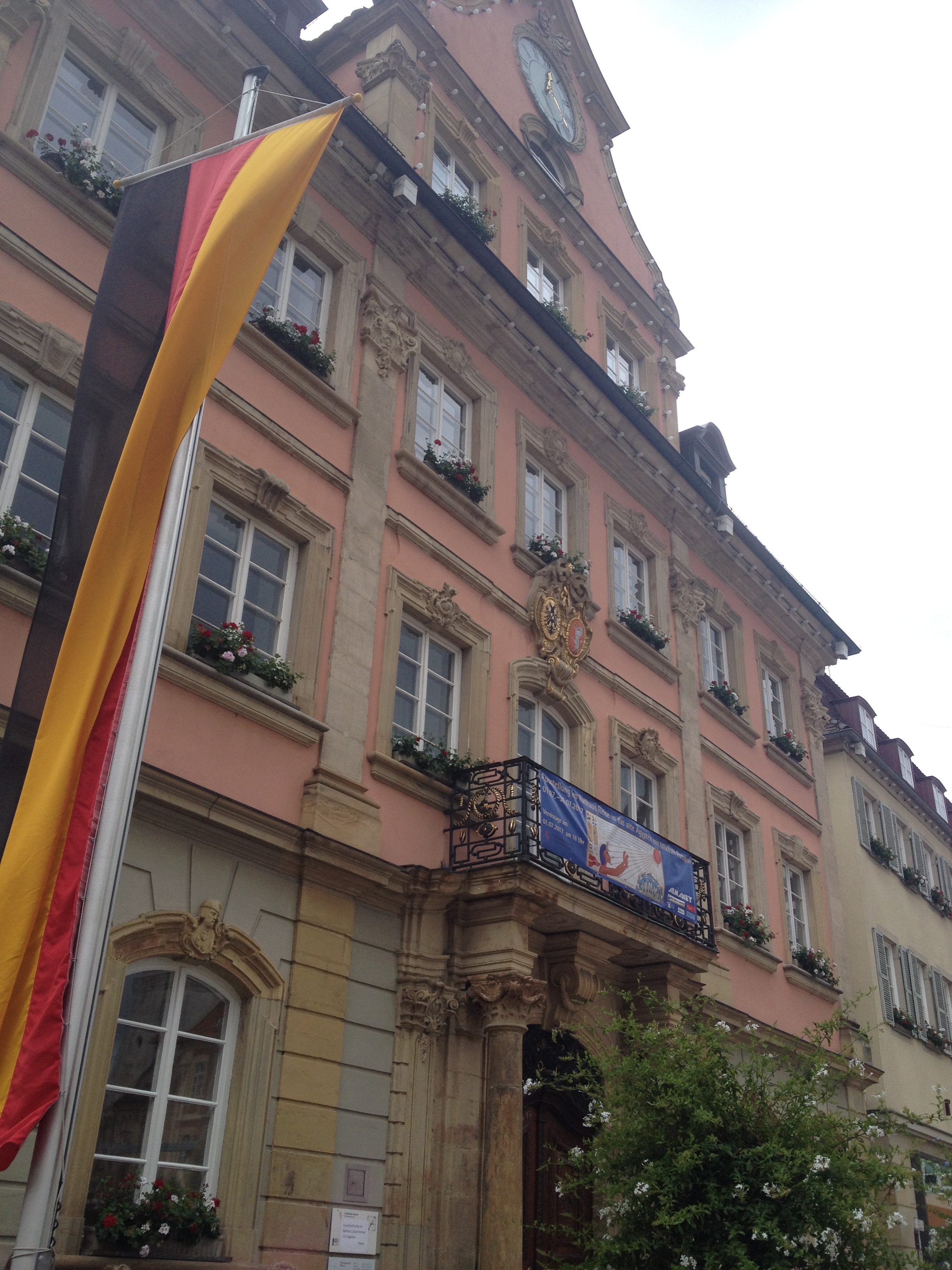 The Gmünder Rathaus as of July 1, 2017